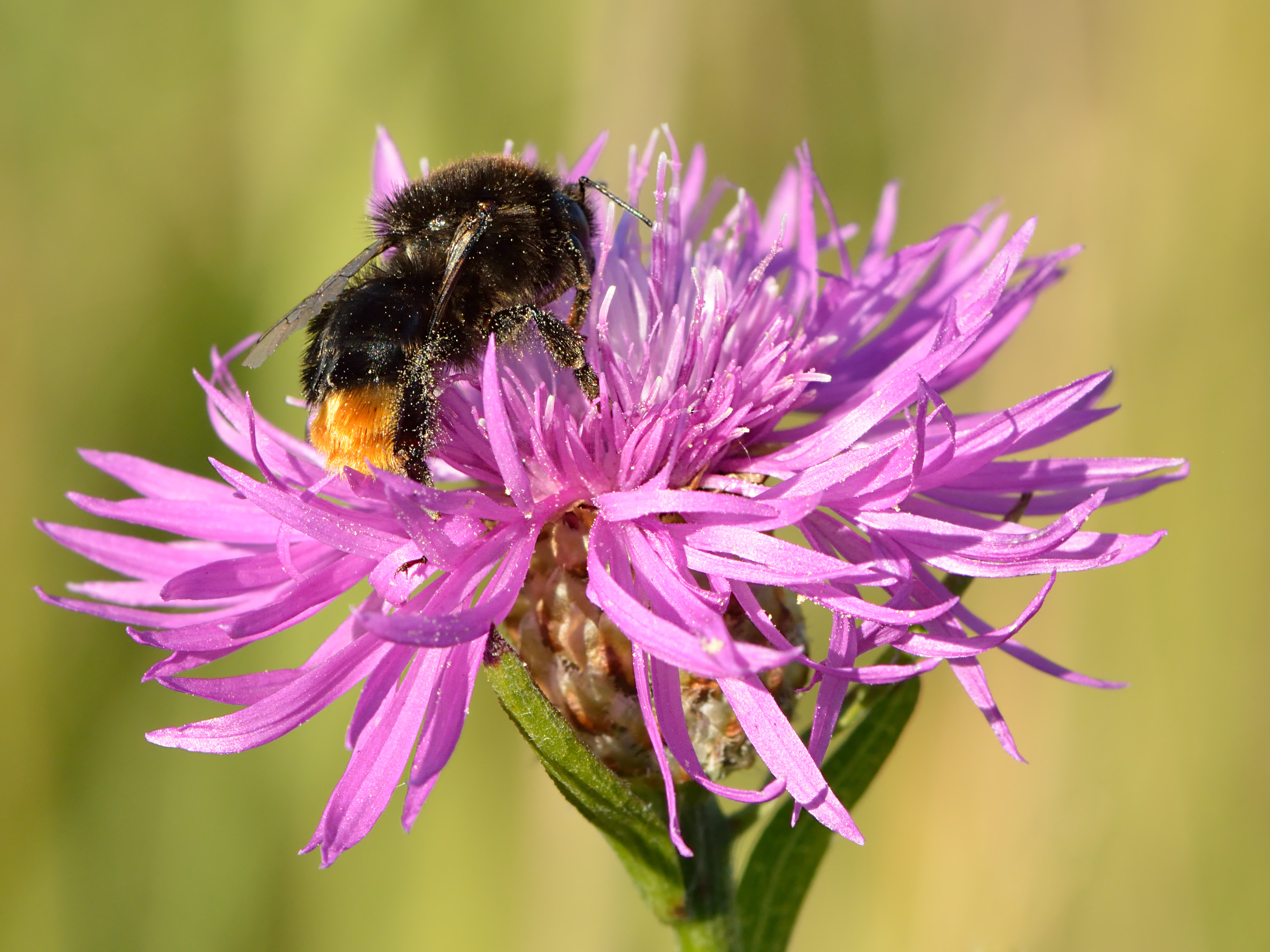 Red-tailed bumblebee (Bombus lapidarius) on the brown knapweed (Centaurea jacea). Keila, Northwestern Estonia.